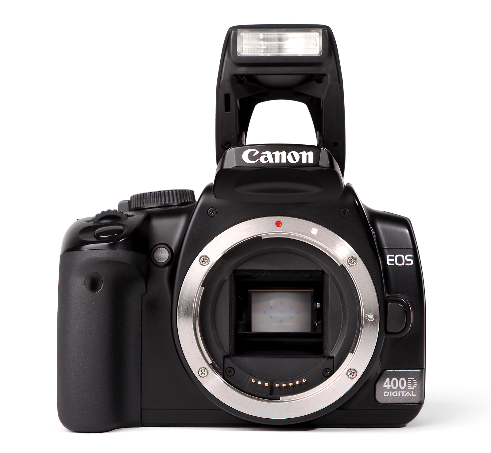 front of the Canon EOS 400D.